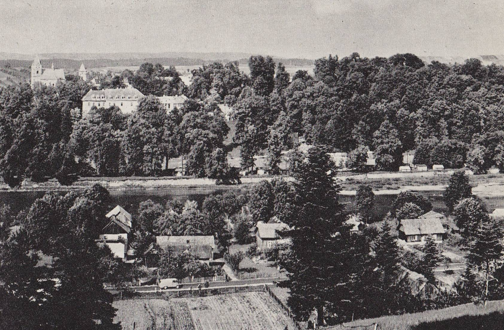 General view of Lesko